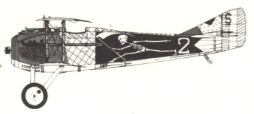 French Air Corps (Armée de l'Air) Spad 94 Airplane Side View with the "Grim Reaper" Insignia This insignia was painted on all of that squadron's planes.